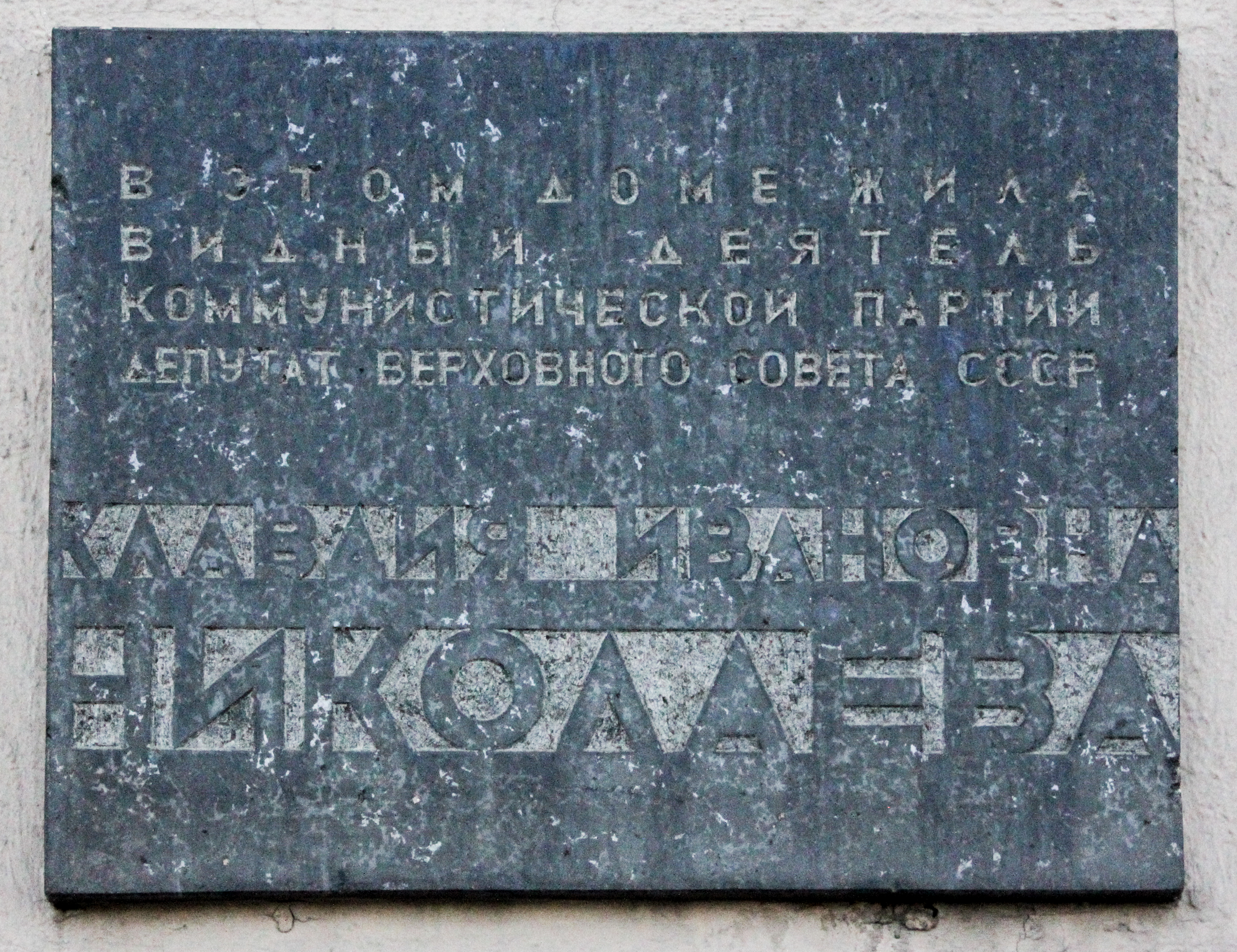 In this building lived a remarkable CPSU politician, a member of Supreme Soviet Klavdiya Ivanovna Nikolaeva.